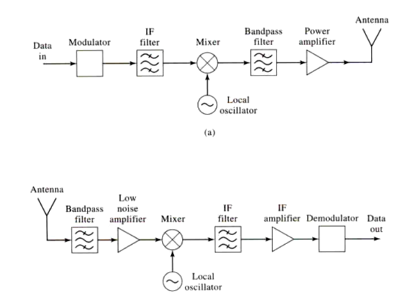 Fig. 1. 3. (a) Bllok-skema e një transmetuesi pa tela (b) Bllok-skema e një marrësi pa tela